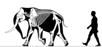 M. exilis Santa Rosa 1994 sex male age 50 size group – humerus 651 femur 800 pelvis 818 202 cm • 1.35 t All the skeletal restorations are presented on the same scale (1/100). The human figure is 180 cm tall. Mass estimates are in kilograms for small proboscideans and in tonnes for the larger forms. Shoulder heights are in cm. The age (years), sex, size group, femur and humerus greatest length (mm) (in the case of * it refers to the humerus articular length in mm) and pelvis breadth (mm) are included.